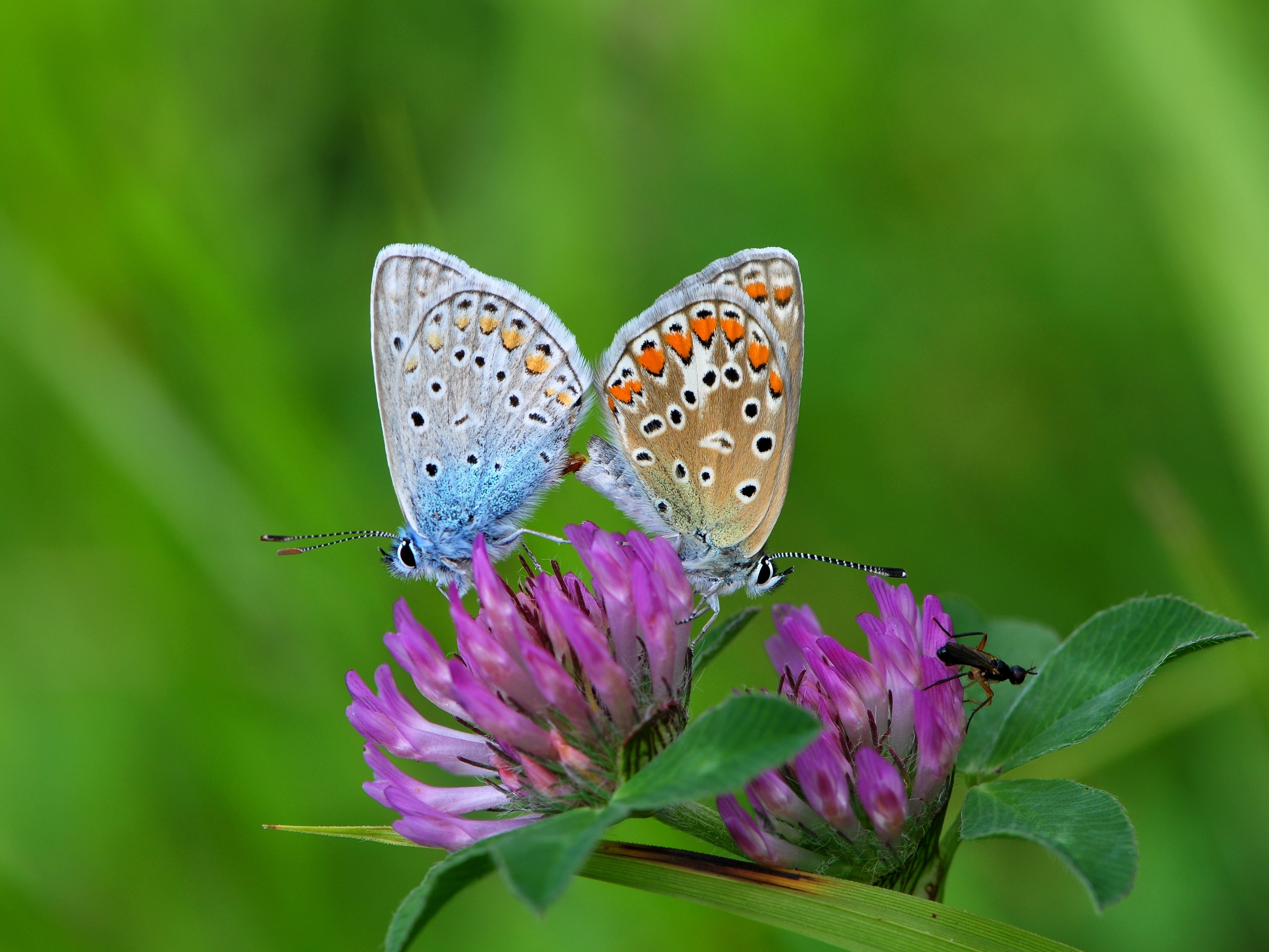 The Common Blue (Polyommatus icarus) is a small butterfly in the family Lycaenidae. To the left the male is shown, with the female on the right. Spotted in Dornbirn. Trifolium pratense (Red Clover) is a species of clover, native to Europe, western Asia and northwest Africa, but planted and naturalised in many other regions.